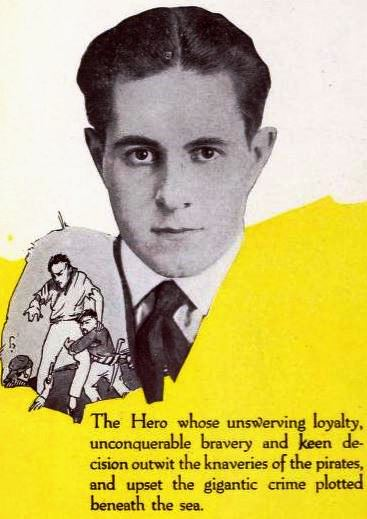 Advertisement for the American film serial Bride 13 (1920) with John B. O'Brien, cropped from the insert after page 18 of the September 11, 1920 Exhibitors Herald.